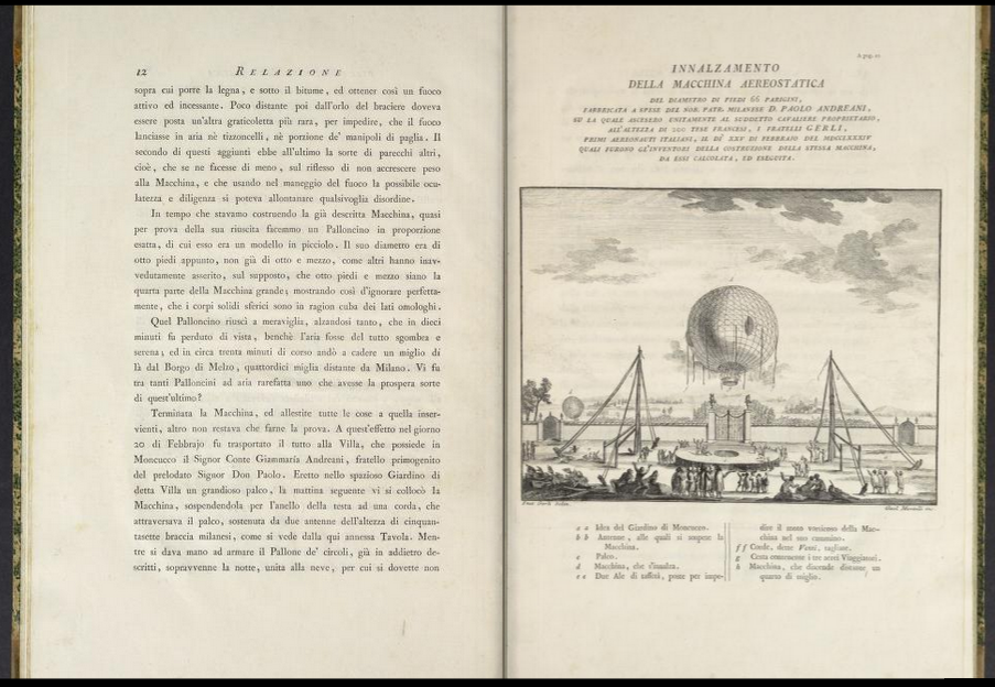 From the book in Italian called "Opuscoli" by Agostino Gerli. Gerli and his brothers built the first Italian balloon for Andreani for his 1784 ascent